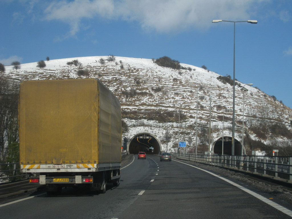 Roundhill Tunnels Created in the early 1990's, the two 380m long tunnels through Round Hill on the A20 connect Folkestone and Dover. Seen from Folkestone side, facing towards Dover.